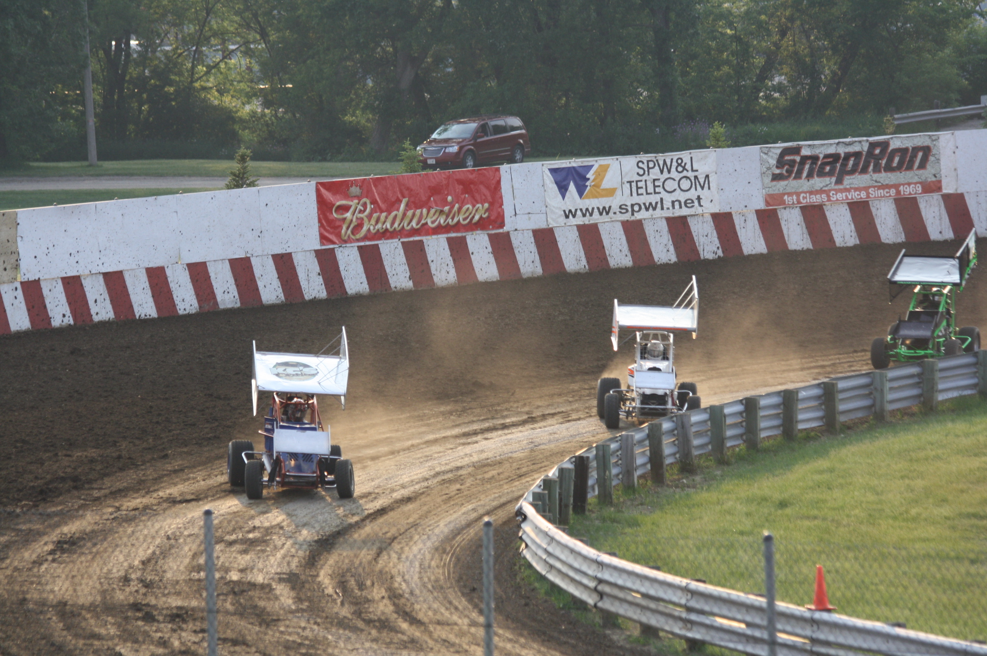 Mini Sprint cars (Wisconsin Illinois Mini Sprints [WIMS]) racing at Angell Park Speedway.